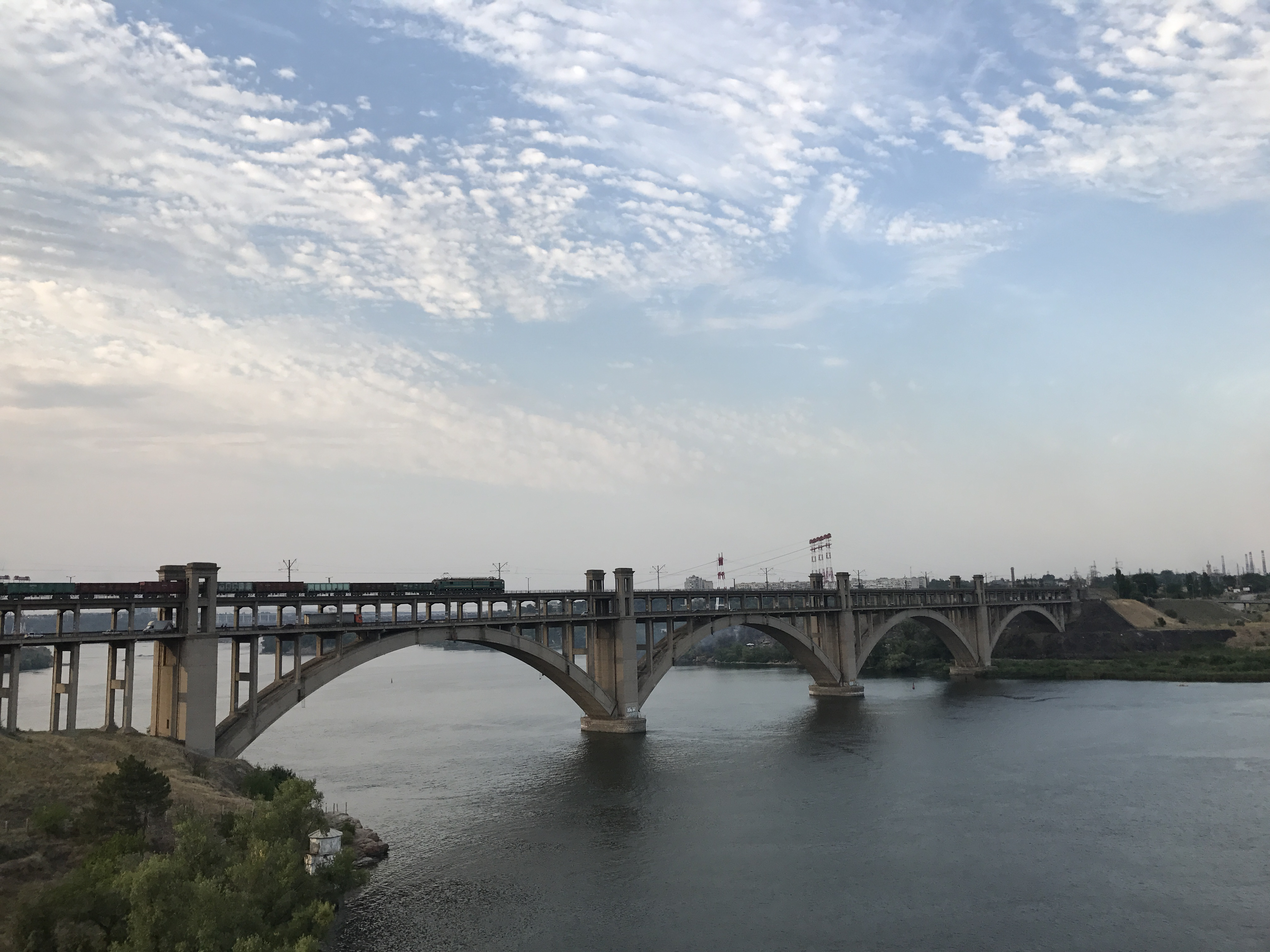 Preobrazhensky Bridge, Dnipro river, Zaporizhia, August 2018